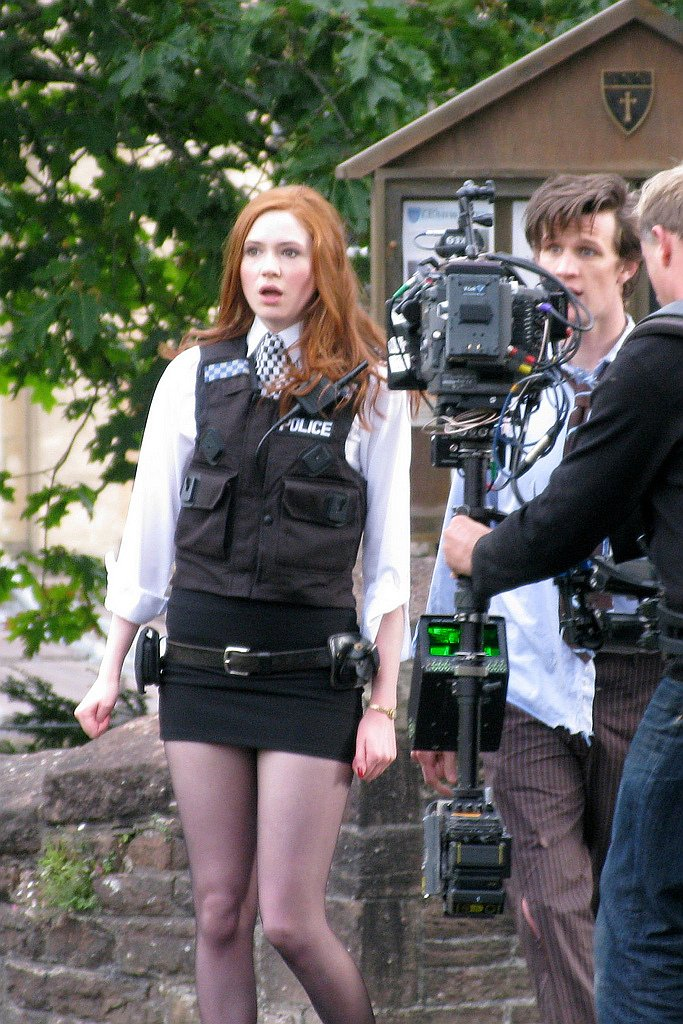 The Eleventh Doctor and Amy Pond